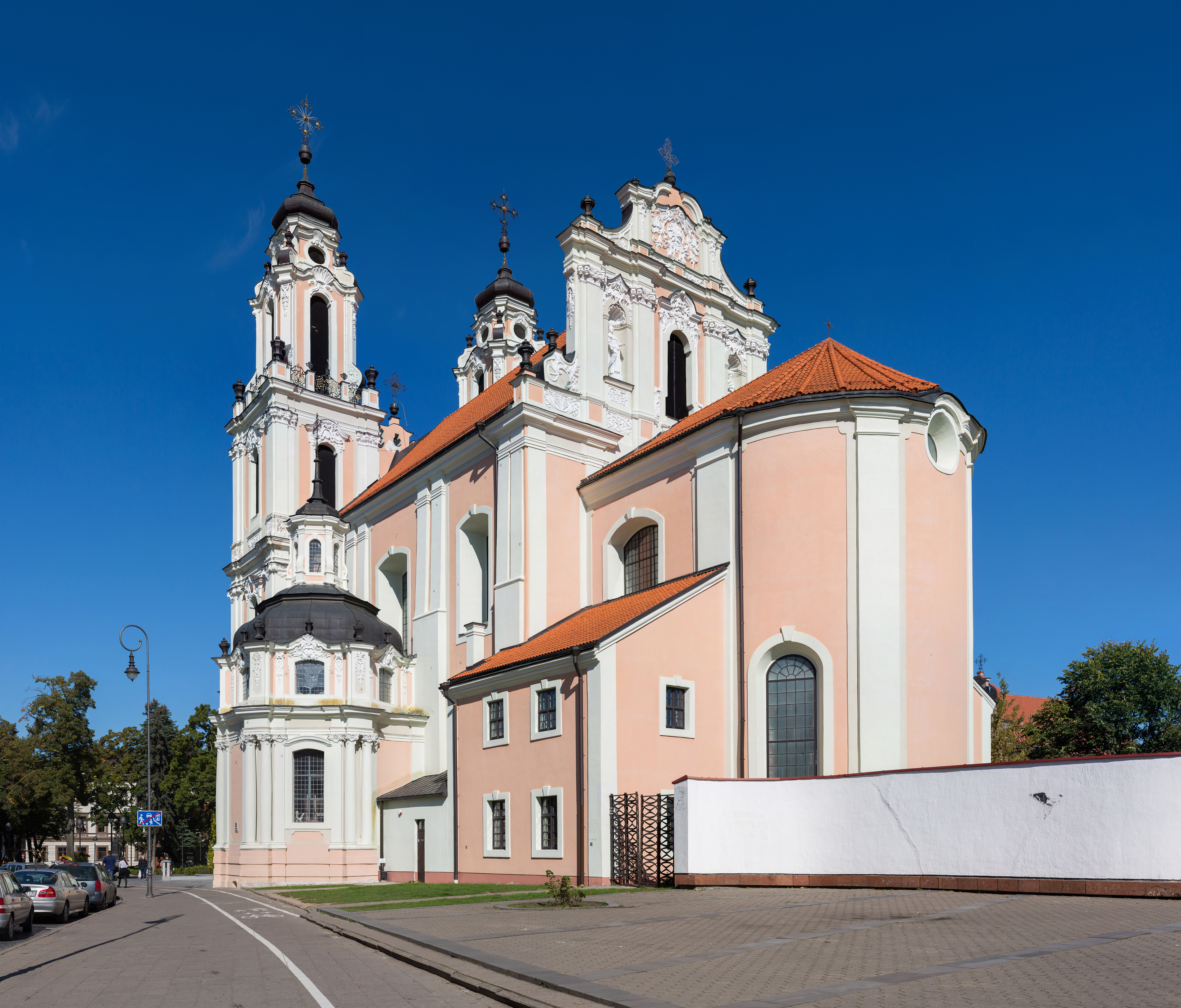 St Catherine's Church, Vilnius, Lithuania